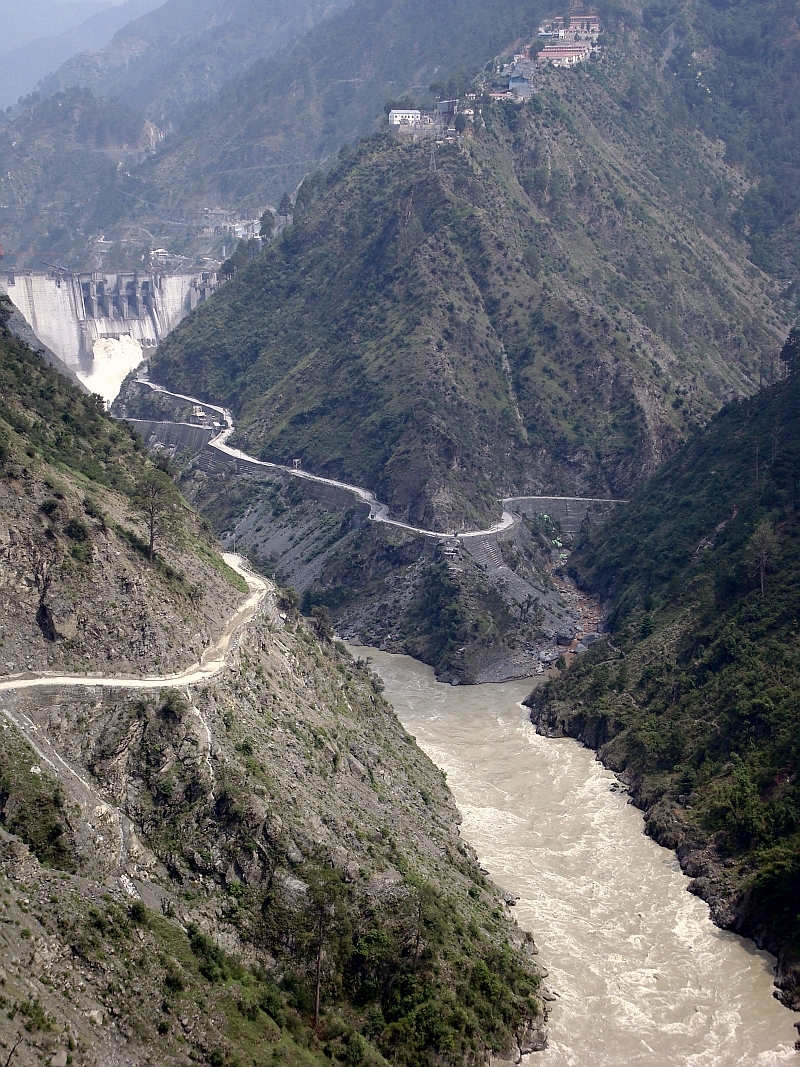 Photograph of Baglihar Dam on river Chenab in Doda district of Indian state of Jammu and Kashmir